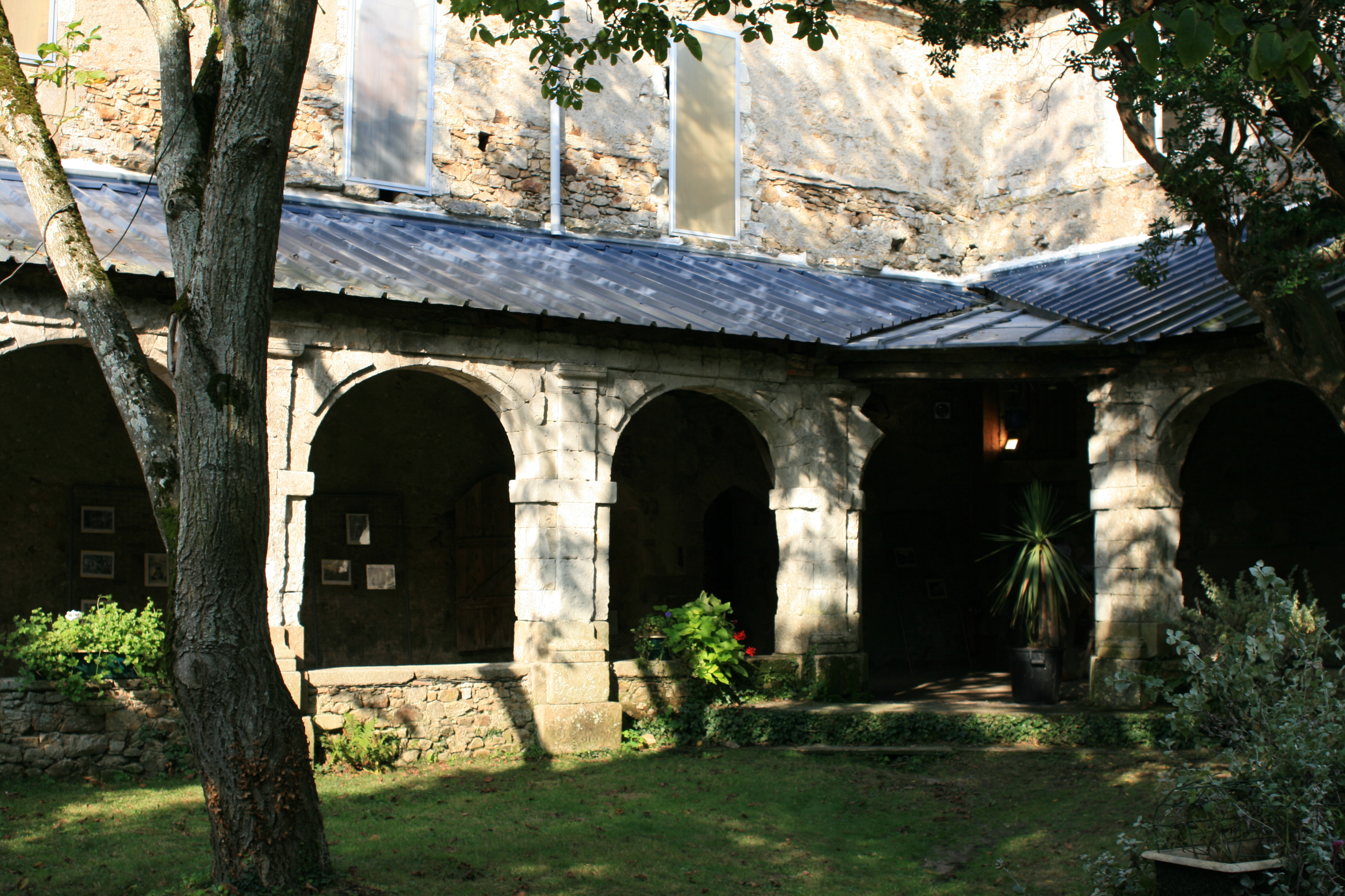 Cloister .